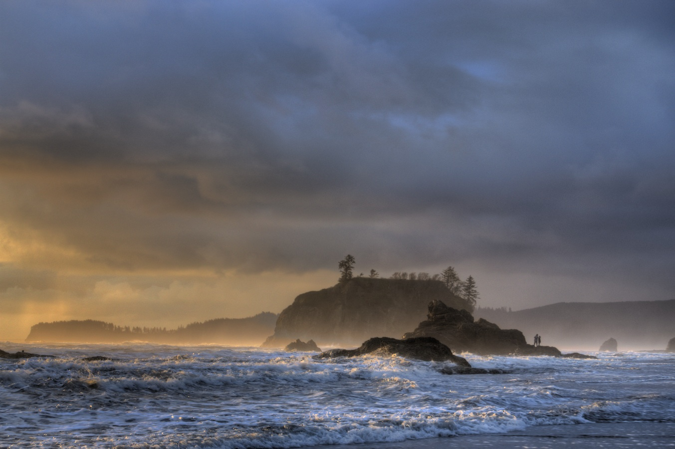 If you think I had to be standing in the water to take this, you are right!